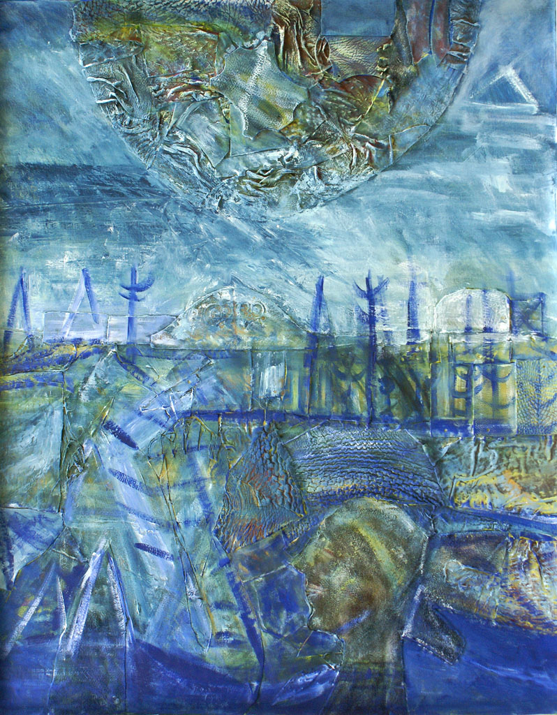 Barbara Piwarska, Błękitna Ziemia collage 120 x 95 cm - 2008.